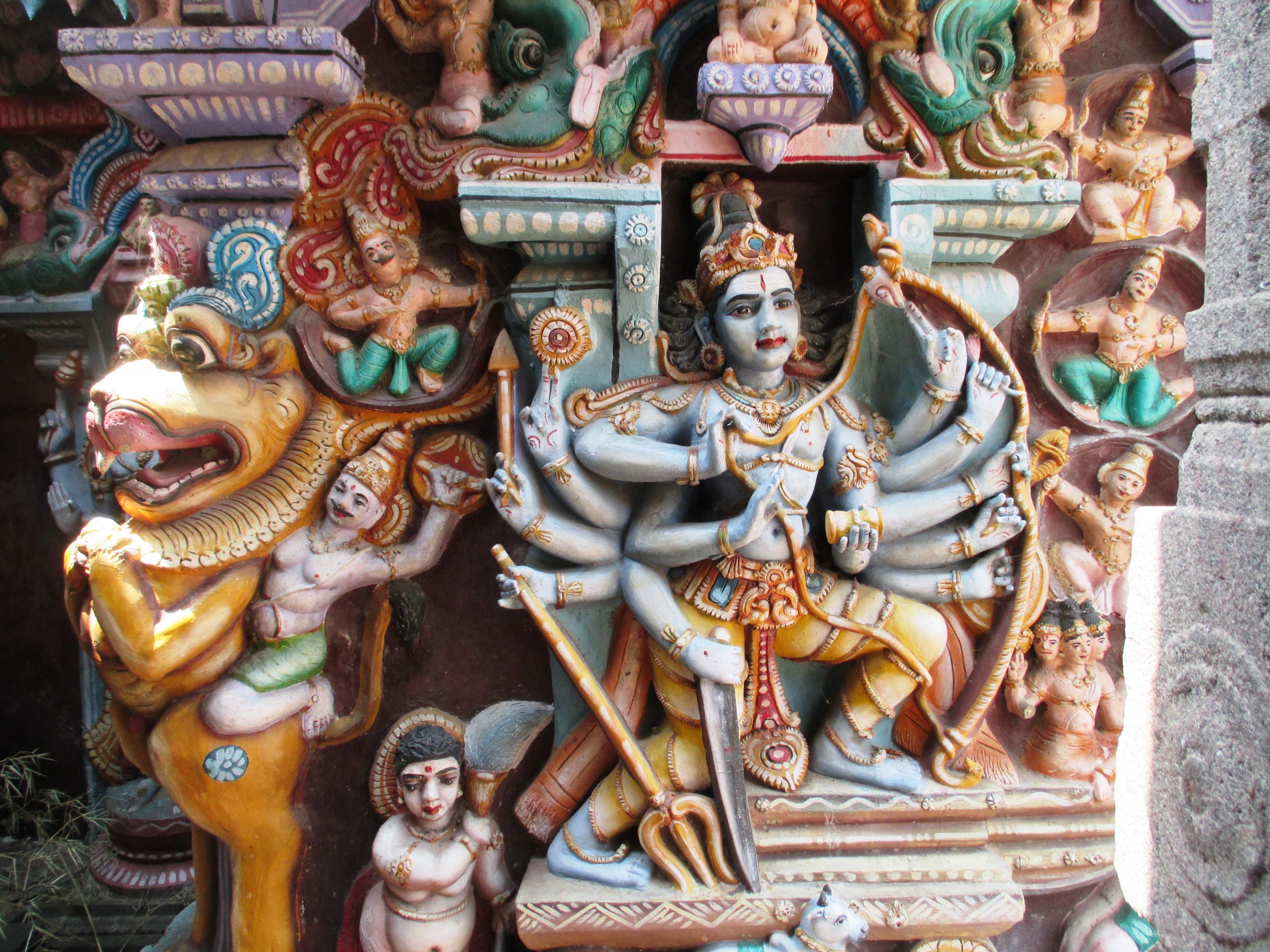 Thiruvathigai Veerateeswarar temple